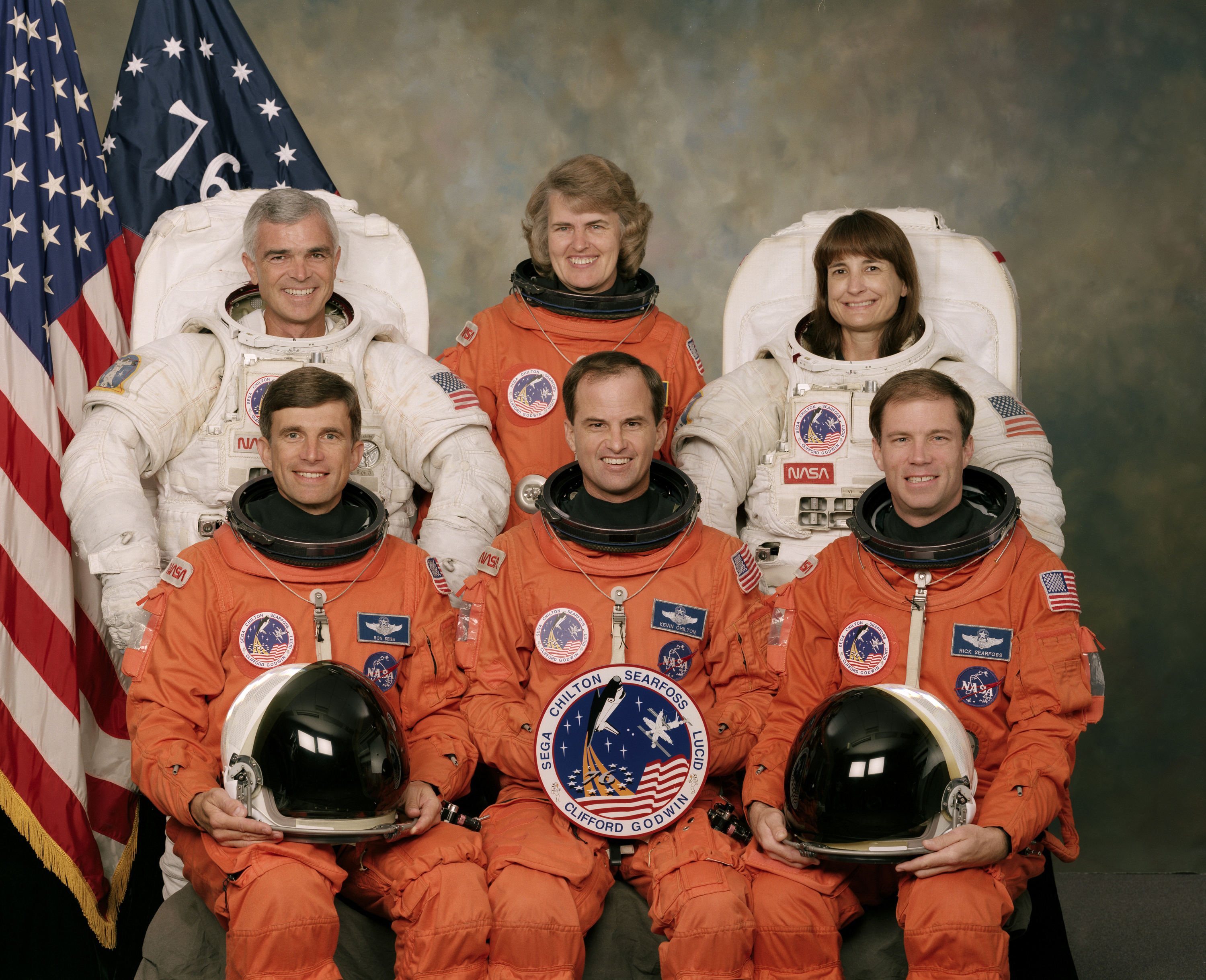 These six NASA astronauts launched into space aboard the Space Shuttle Atlantis on March 22, 1996 for the STS-76 mission. Pictured on the front row, left to right, are astronauts Ronald M. Sega, mission specialist; Kevin P. Chilton, mission commander; and Richard A. Searfoss, pilot. On the back row, left to right, are mission specialists Michael R. (Rich) Clifford, Shannon W. Lucid, and Linda M. Godwin. The third U.S. Shuttle-Mir docking, STS-76 began a new period of international cooperation in space exploration with the first Shuttle transport of a United States astronaut (Lucid) to Russia's Mir Space Station for extended joint space research. Clifford and Godwin, pictured here in training versions of the Extravehicular Mobility Unit (EMU), performed the first Extravehicular Activity (EVA) during Mir-Shuttle docked operations.